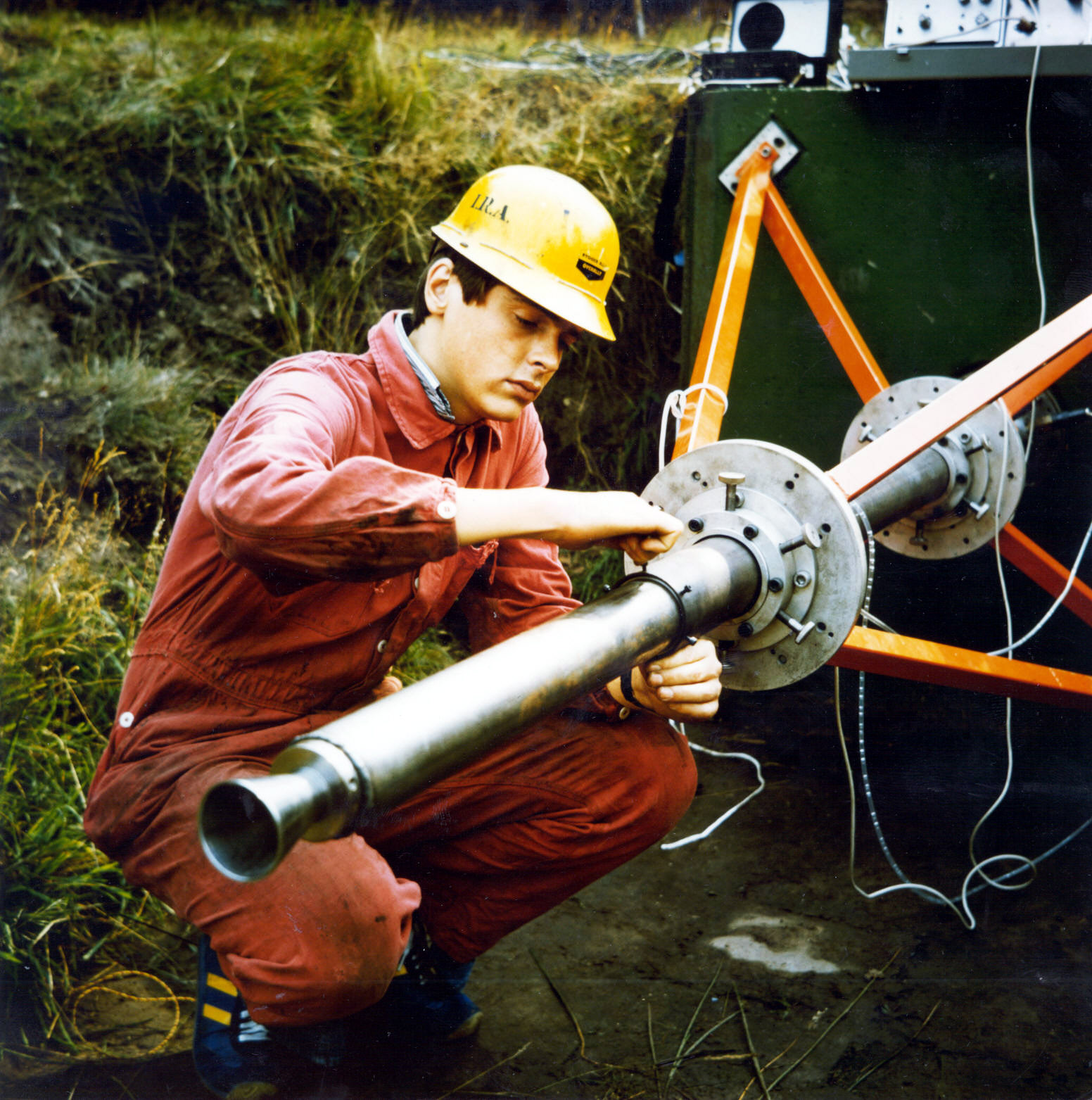 Advanced amateur test of rocketmotor. Test was performed in Netherlands 1977. Rocketmotor was designed and built by Raketgruppen IRA, Djursholm, Sweden.